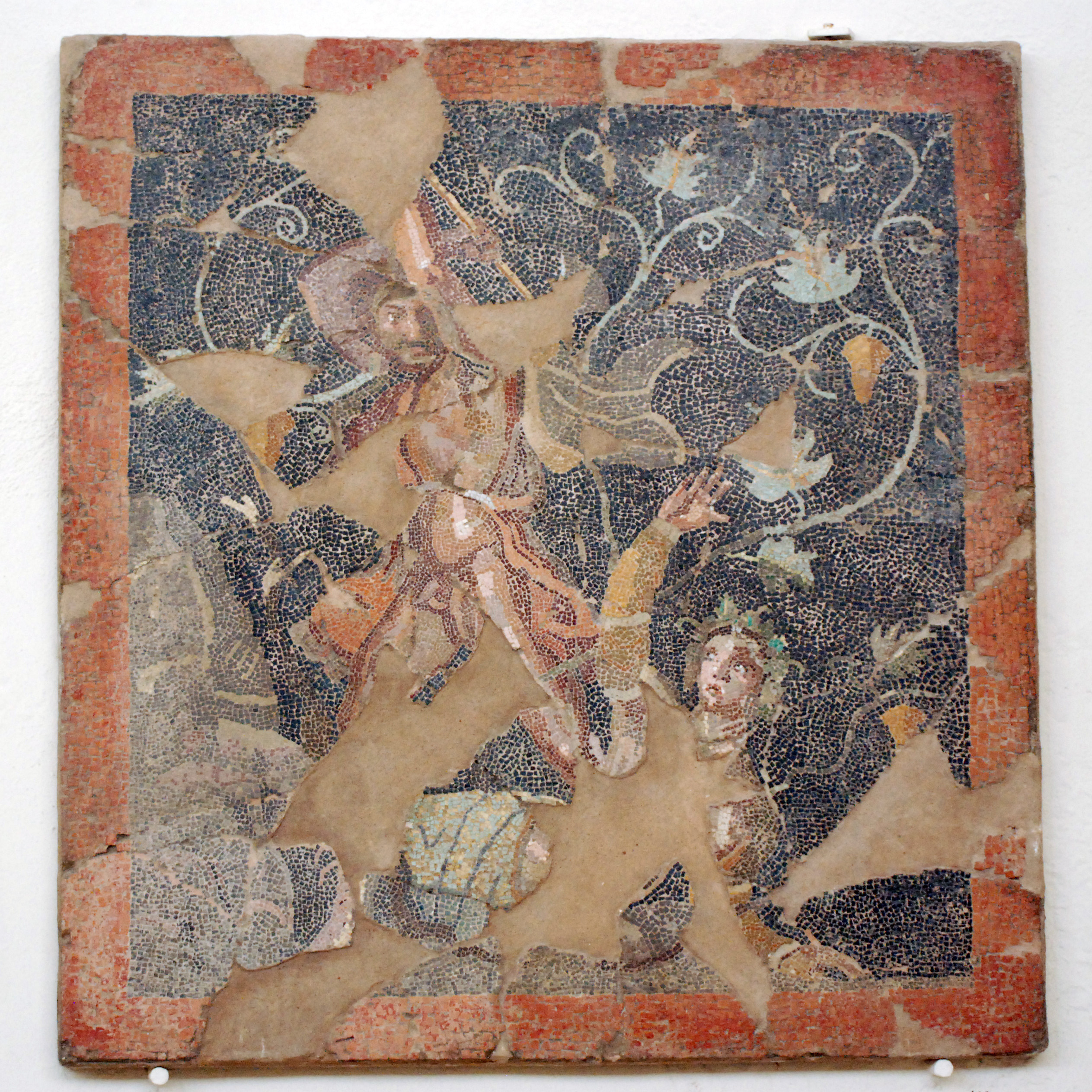 King Lycurgus of Thrace killing Ambrosia, which is changed into a grapevine. Greek mosaic from Delos, end of 2nd century BC, 69 x 73 cm. Archaeological Museum of Delos. For a detailed study of this mosaic (in French), see Claude Vatin & Philippe Bruneau, “Lycurgue et Ambrosia sur une nouvelle mosaïque de Délos”, in Bulletin de correspondance hellénique, 1966, vol. 90, #90-2, p. 391-427.